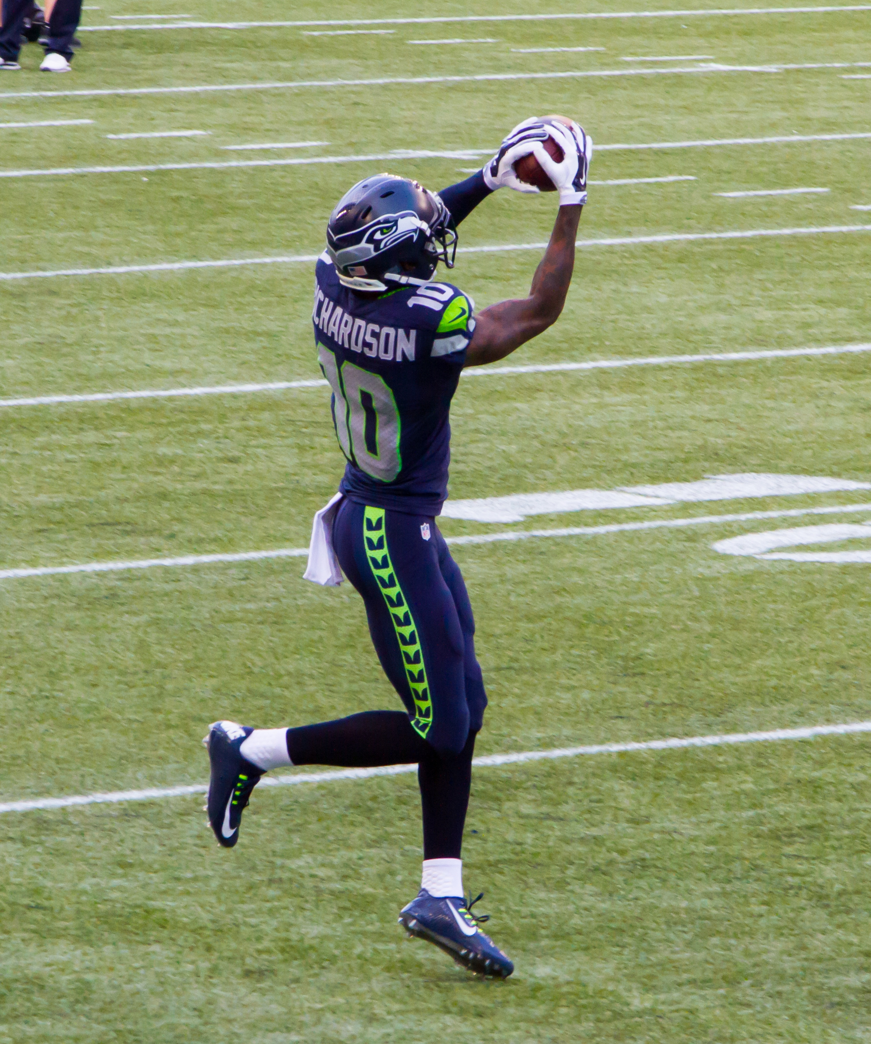 Paul Richardson in 2014 preseason vs. Chicago Bears